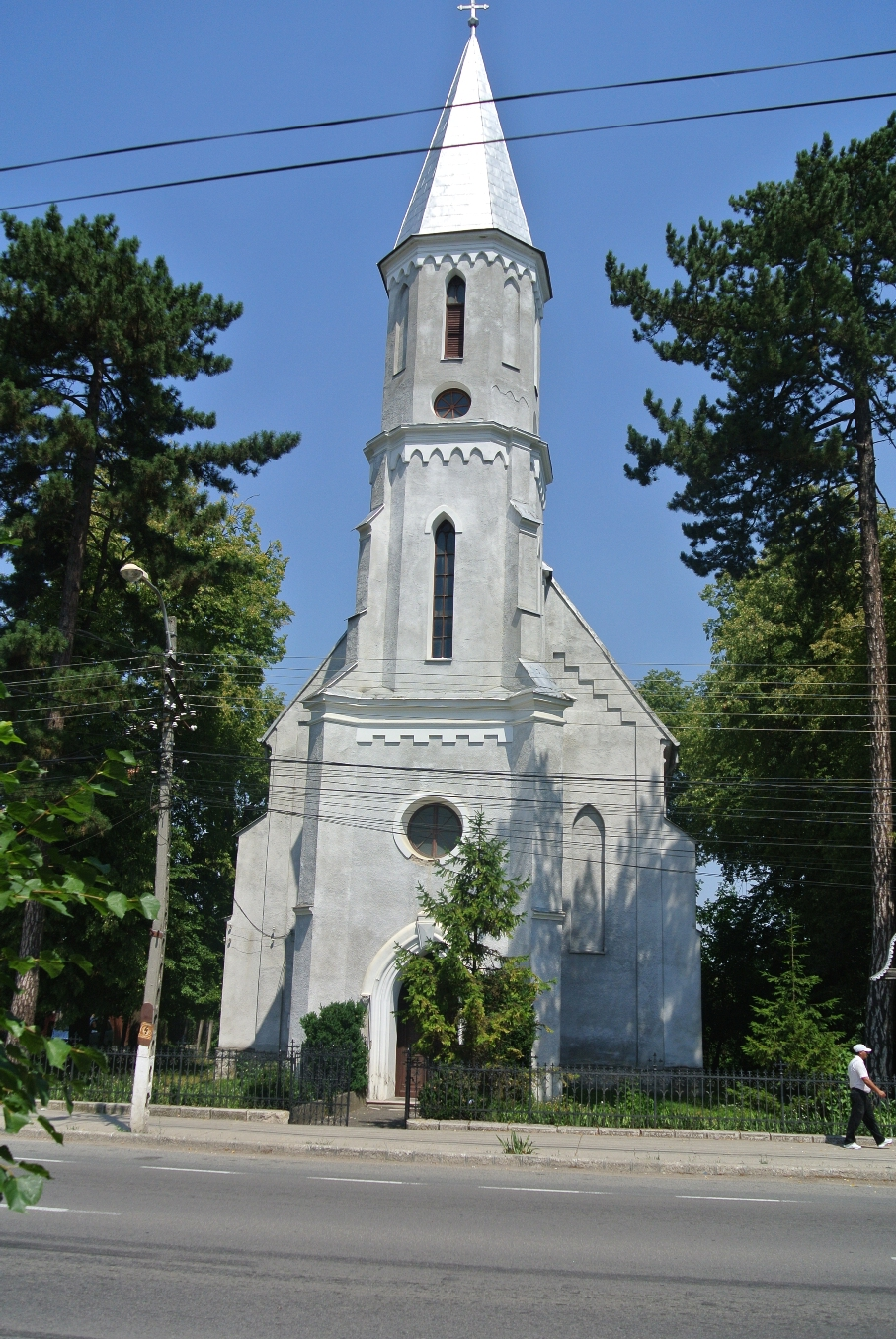 Huedin Catholic Church